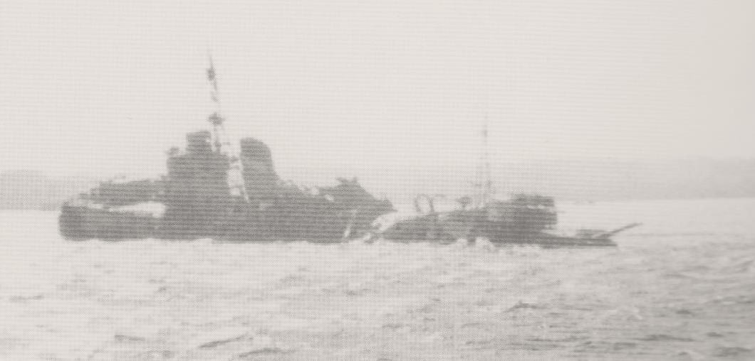 The Japanese destroyer Hayashimo, pratically with emptied tanks, was deliberately ran aground on October, 26th 1944 in the vicinity of Semirara Island, south of Mindoro. She was hit by an aerial torpedo little afterwards and repeatedly pounded by U.S. planes in the following days. The destroyer was abandoned by the crew during November. This photo was taken later or in 1945.